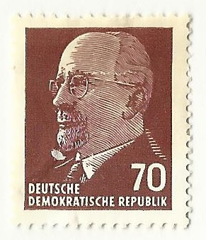 East German stamp